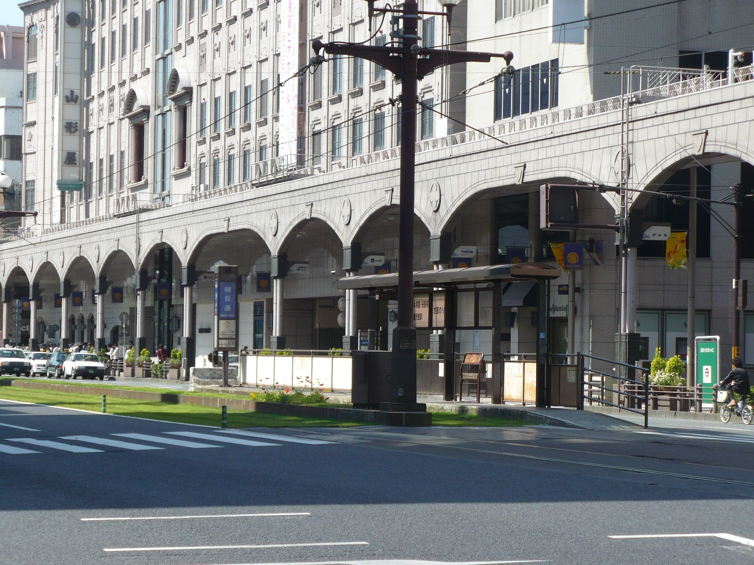 Asahidori tramstop of Kagoshima city transportation bureau, Kagoshima city Kagoshima prefecture Japan.